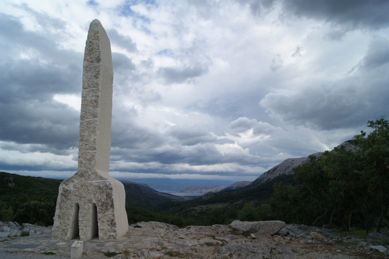 Glagolitian letter A at the Island of Krk, Croatia, noth of Baska